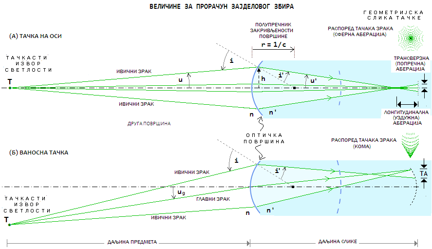 ВЕЛИЧИНЕ ЗА ПРОРАЧУН ЗАЈДЕЛОВОГ ЗБИРА